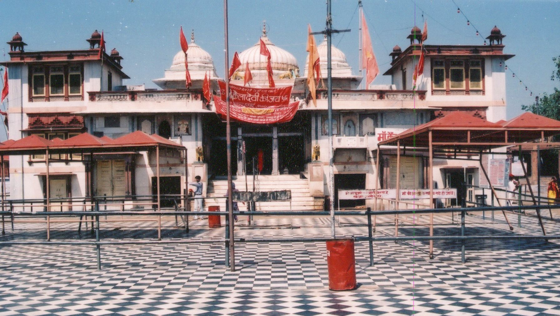 kailadevi temple is situated in karauli district. this tample is dedicate to godess durga.